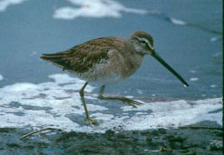 Long-billed Dowitcher (Limnodromus scolopaceus)